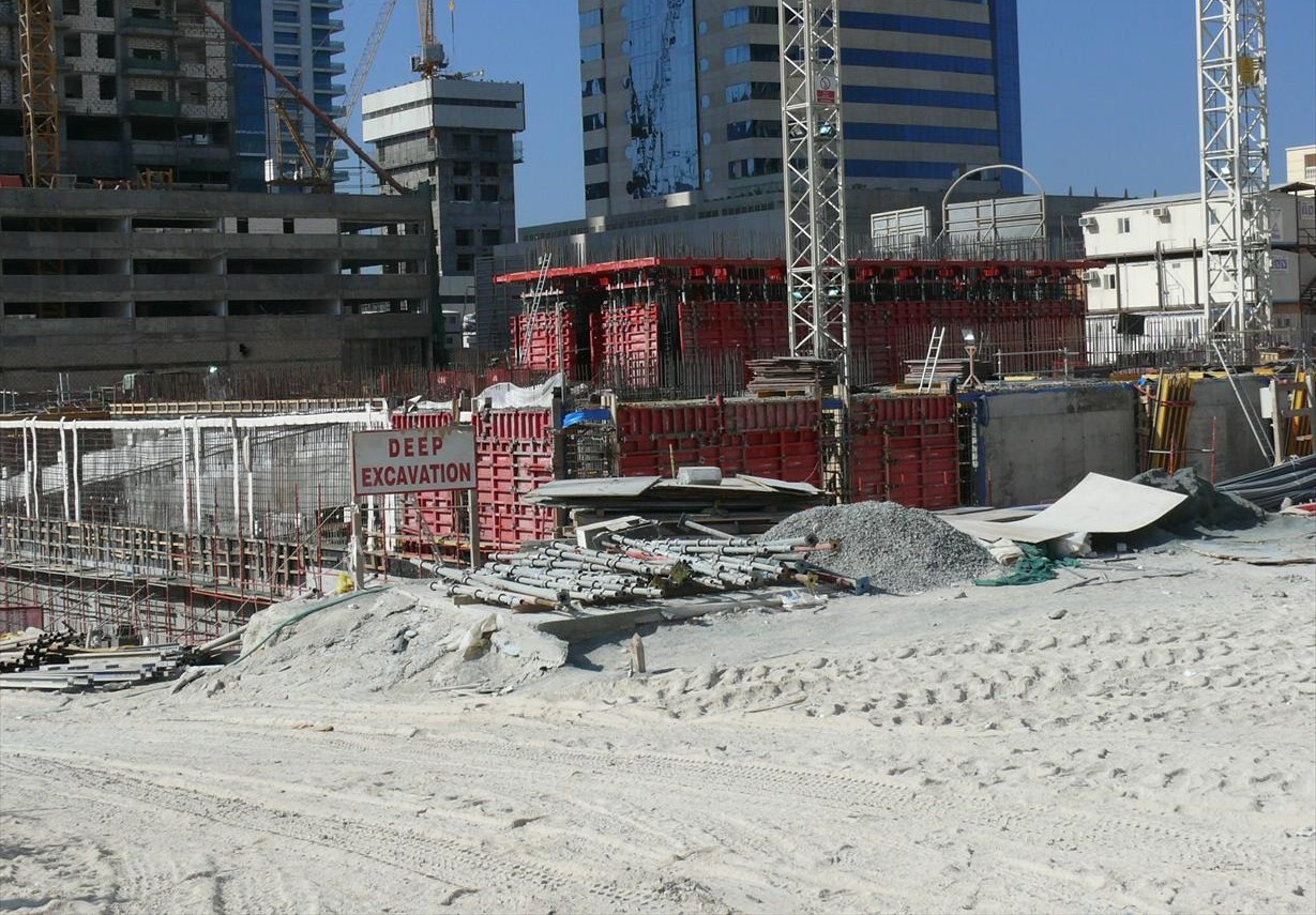 This is a photo showing the construction of Sulafa Tower, located in Dubai Marina in Dubai, United Arab Emirates, on 20 December 2007.